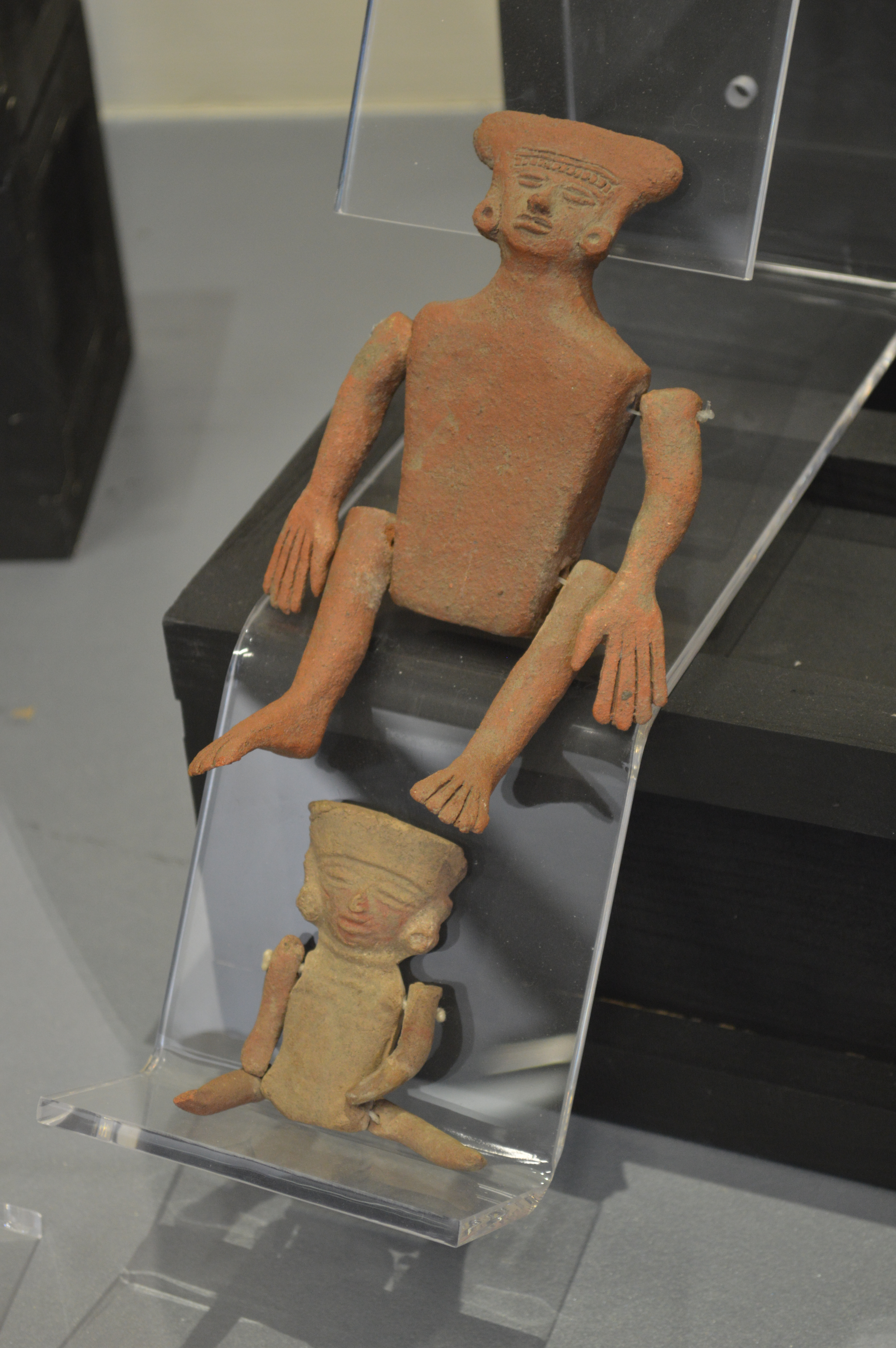 Mesoamerican doll/puppet on display at the National Puppet Museum in Huamantla, Tlaxcala, Mexico